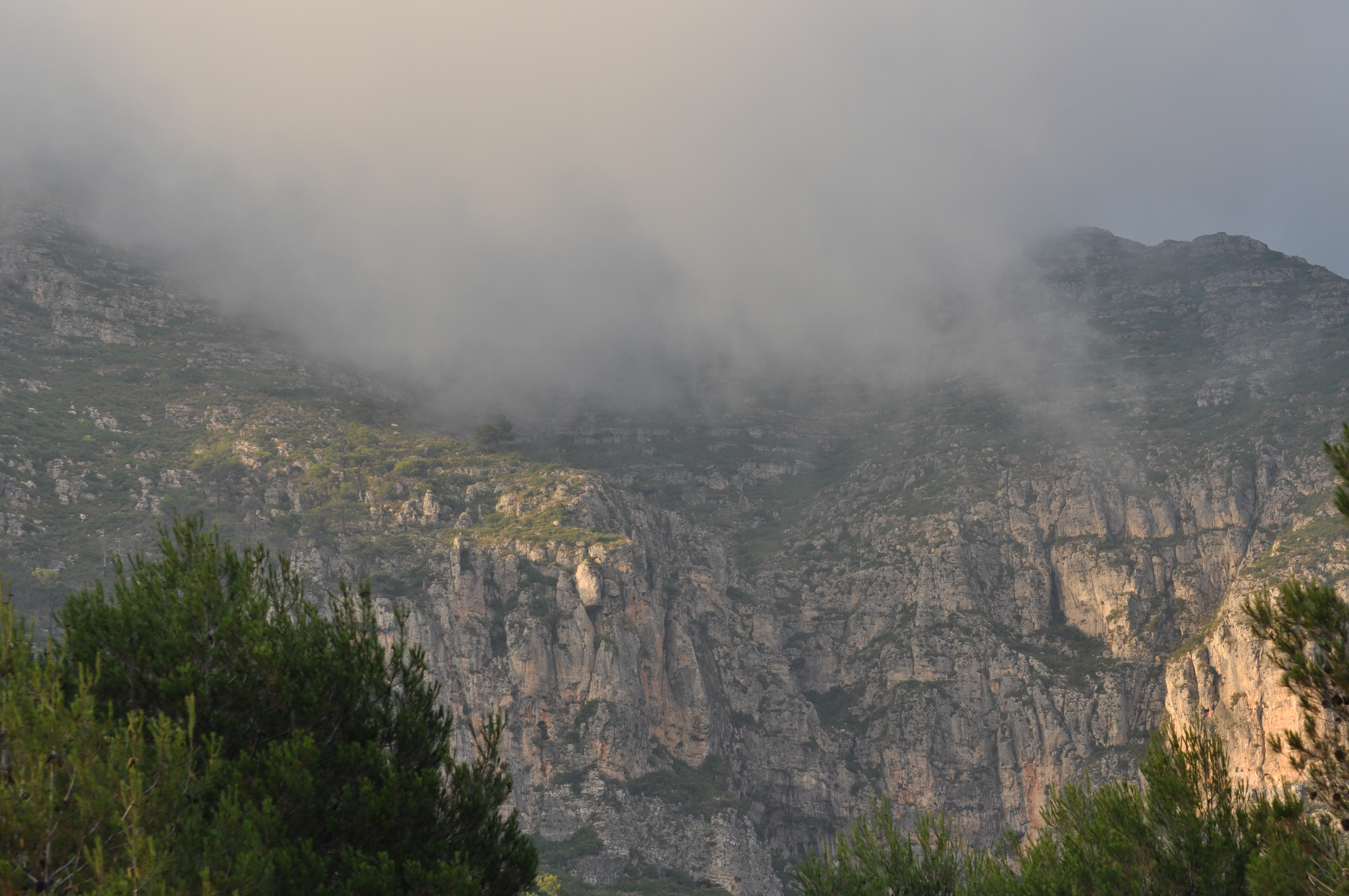 The mountains of Barx Village in Spain - Photo by Parsa Rashidi Moghaddam / PDN